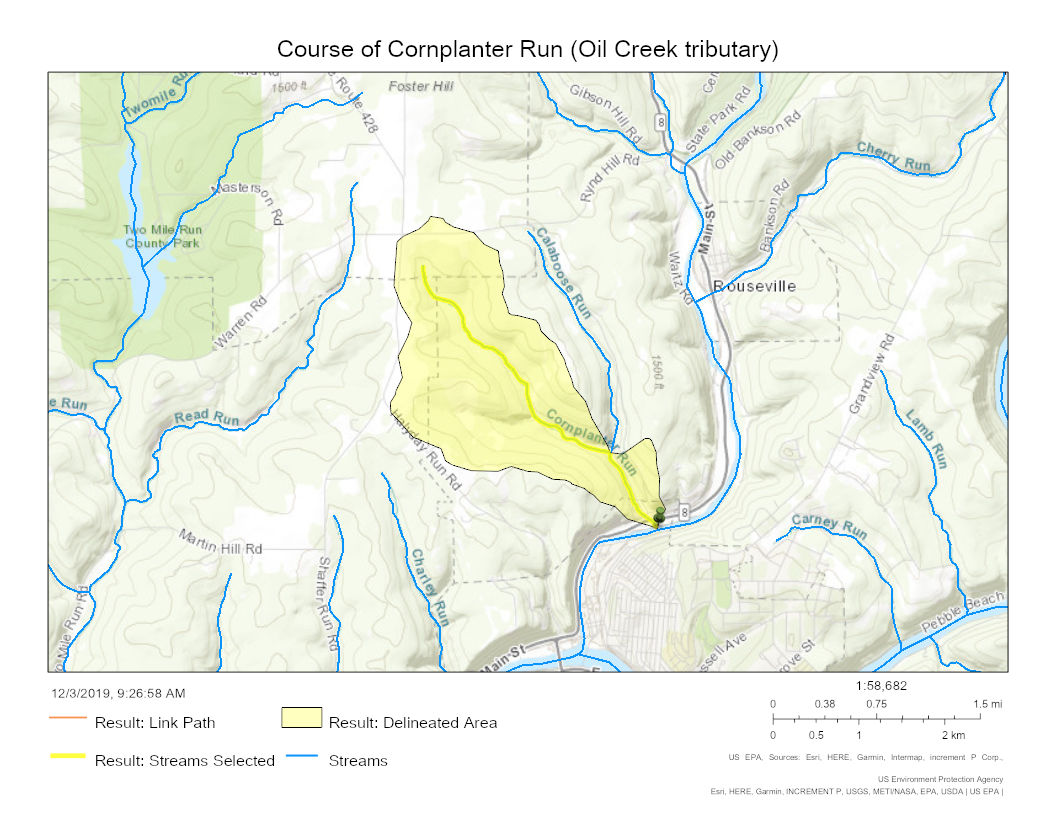 Map of the course of Cornplanter Run (Oil Creek tributary) in Venango County, Pennsylvania.